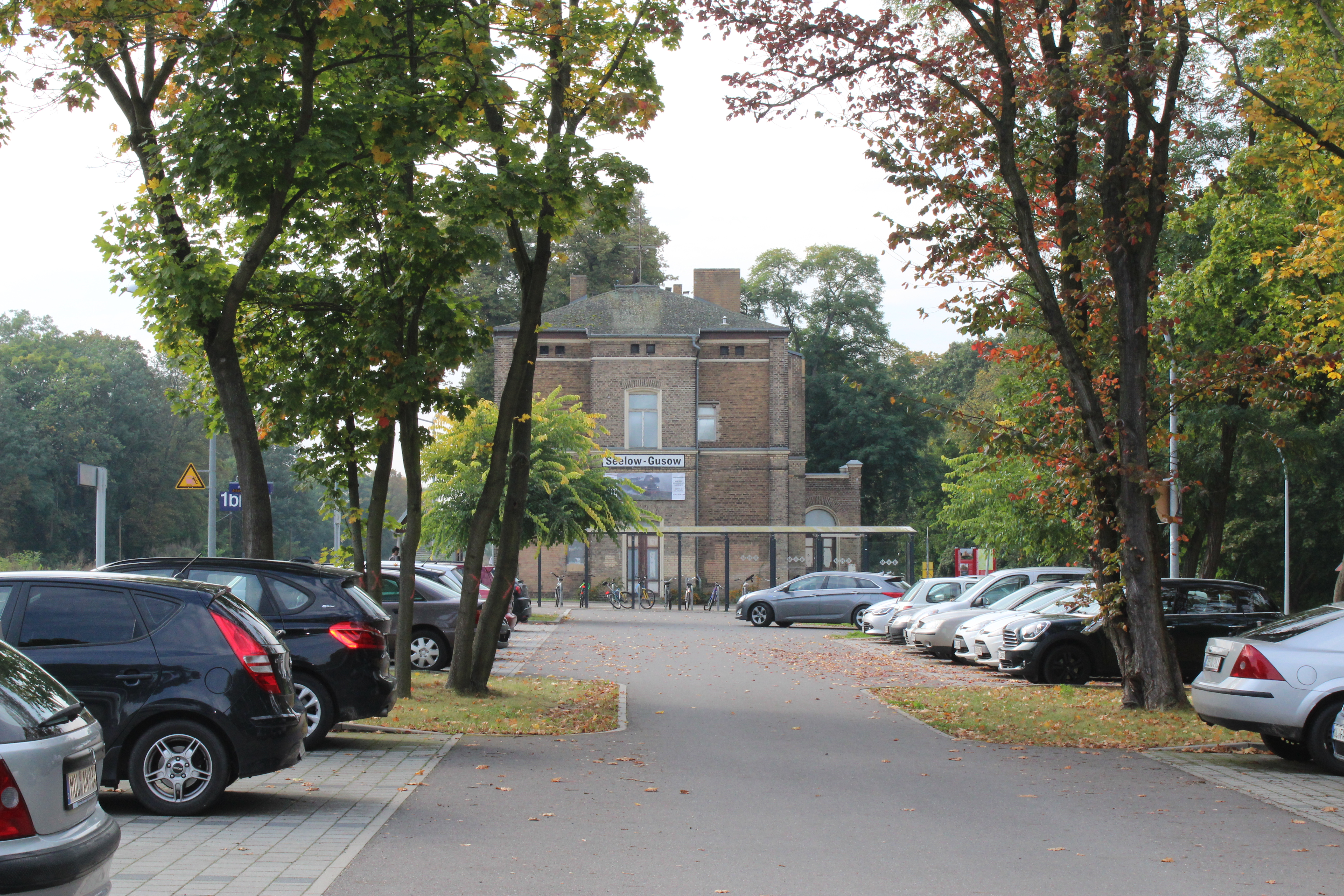 train station Seelow-Gusow